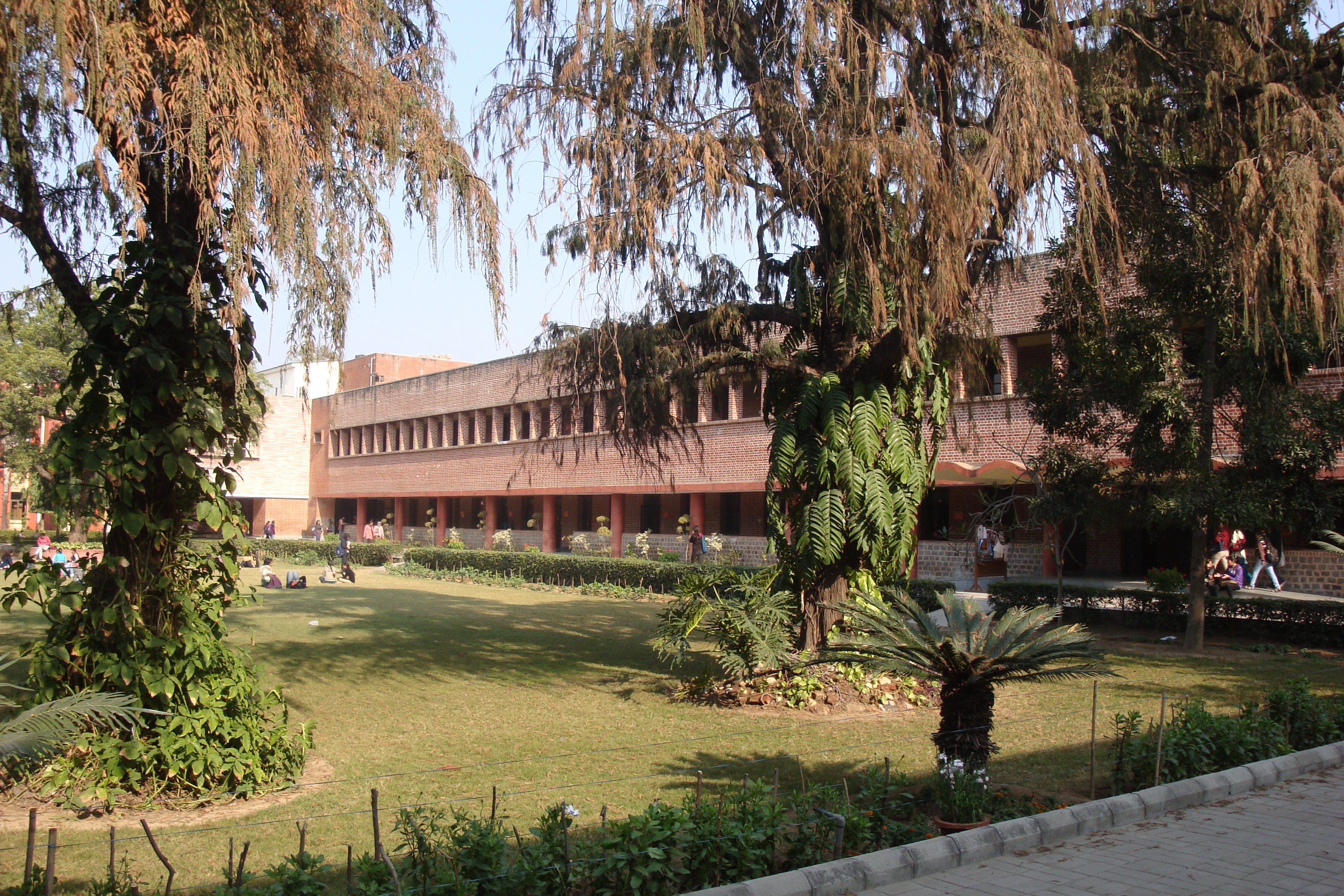 The main college building along with the front lawns.